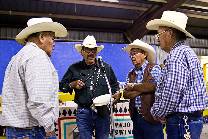 Members of the Navajo Song & Dance singing group "Cross Canyon Echoes" sing for a charity event in Window Rock, Arizona. Image taken at Nakai Hall.